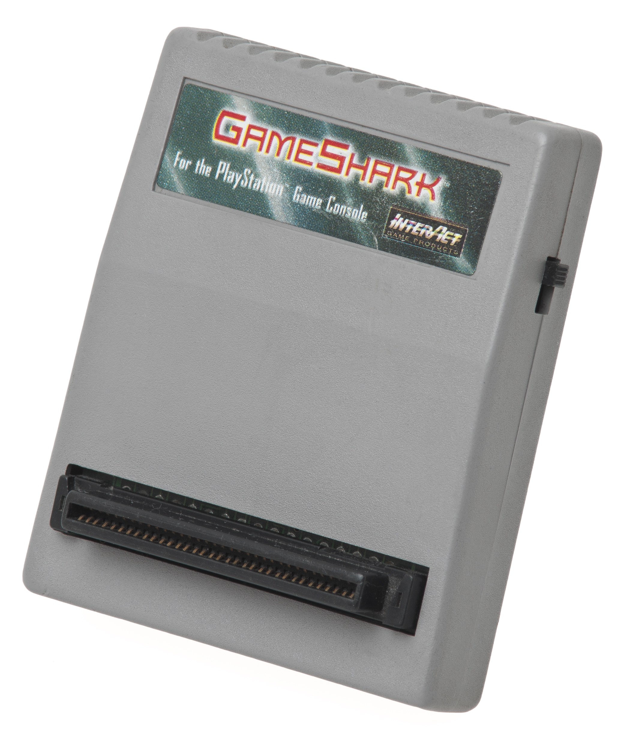 A GameShark for the original PlayStation console. A cheat device that attaches to the parallel port in the back of earlier model PlayStations.